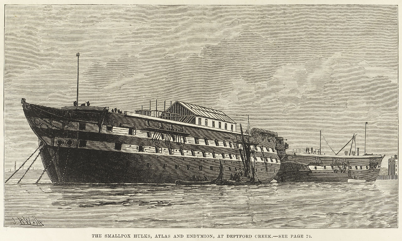 Woodcut showing the hospital ships Atlas and Endymion in Deptford Creek